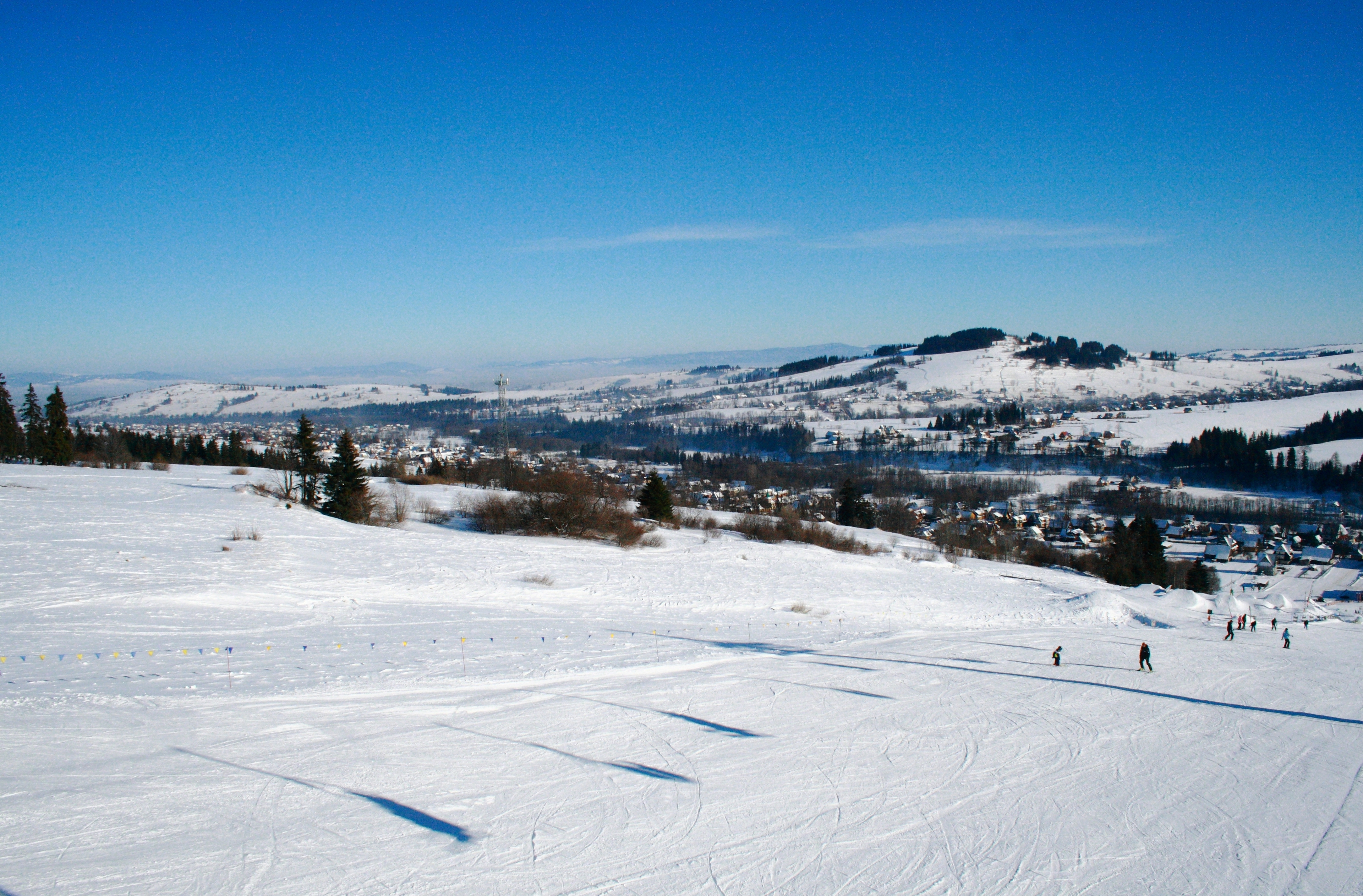 Ski Center Witów-Ski in Witów near Zakopane, Poland